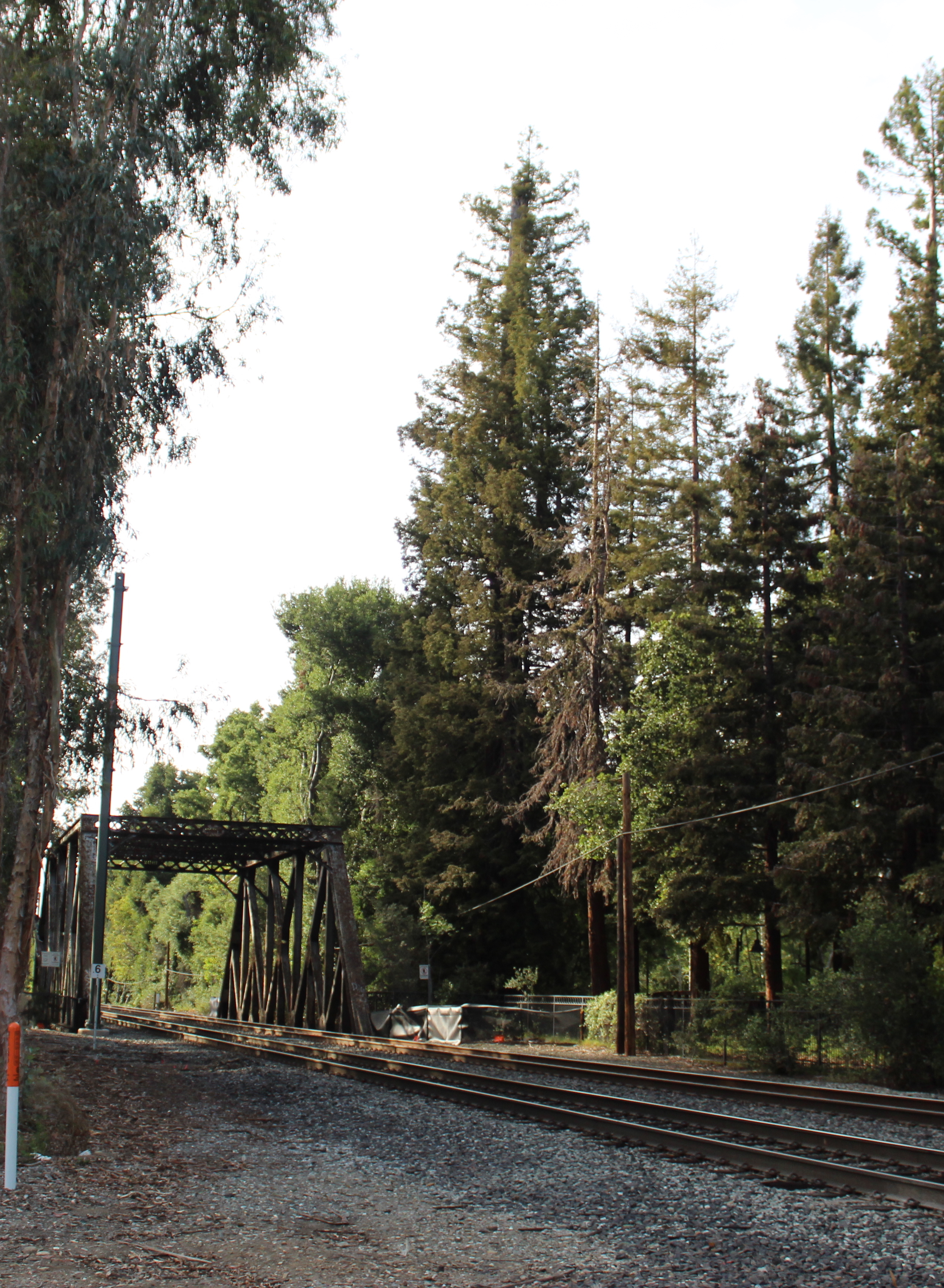 El Palo Alto, May 2nd 2020. Taken from the train track crossing.